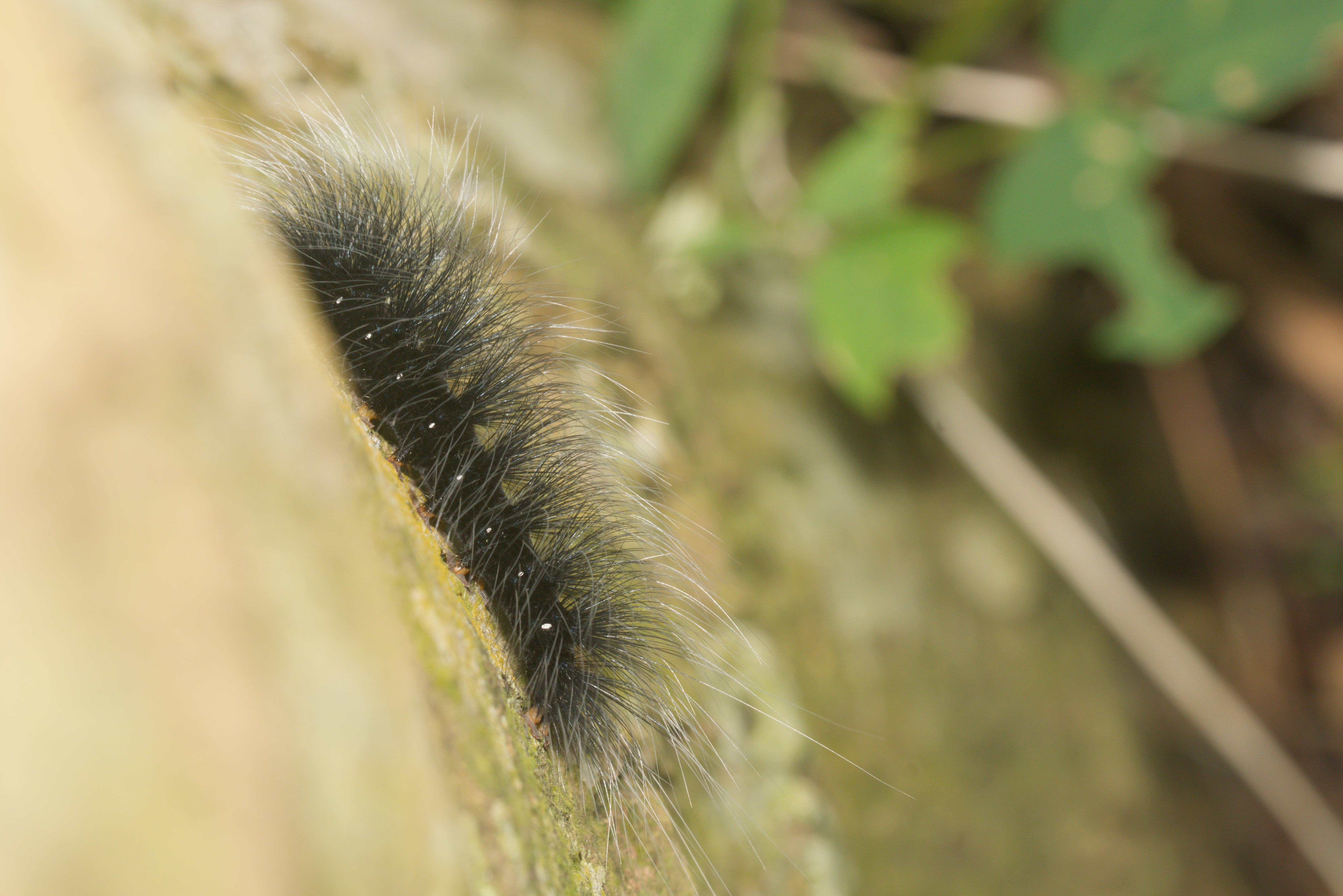 Macrobrochis is a genus of moths of the Arctiidae family. This can be of Macrobrochis gigas. (ID: IndianMoths)